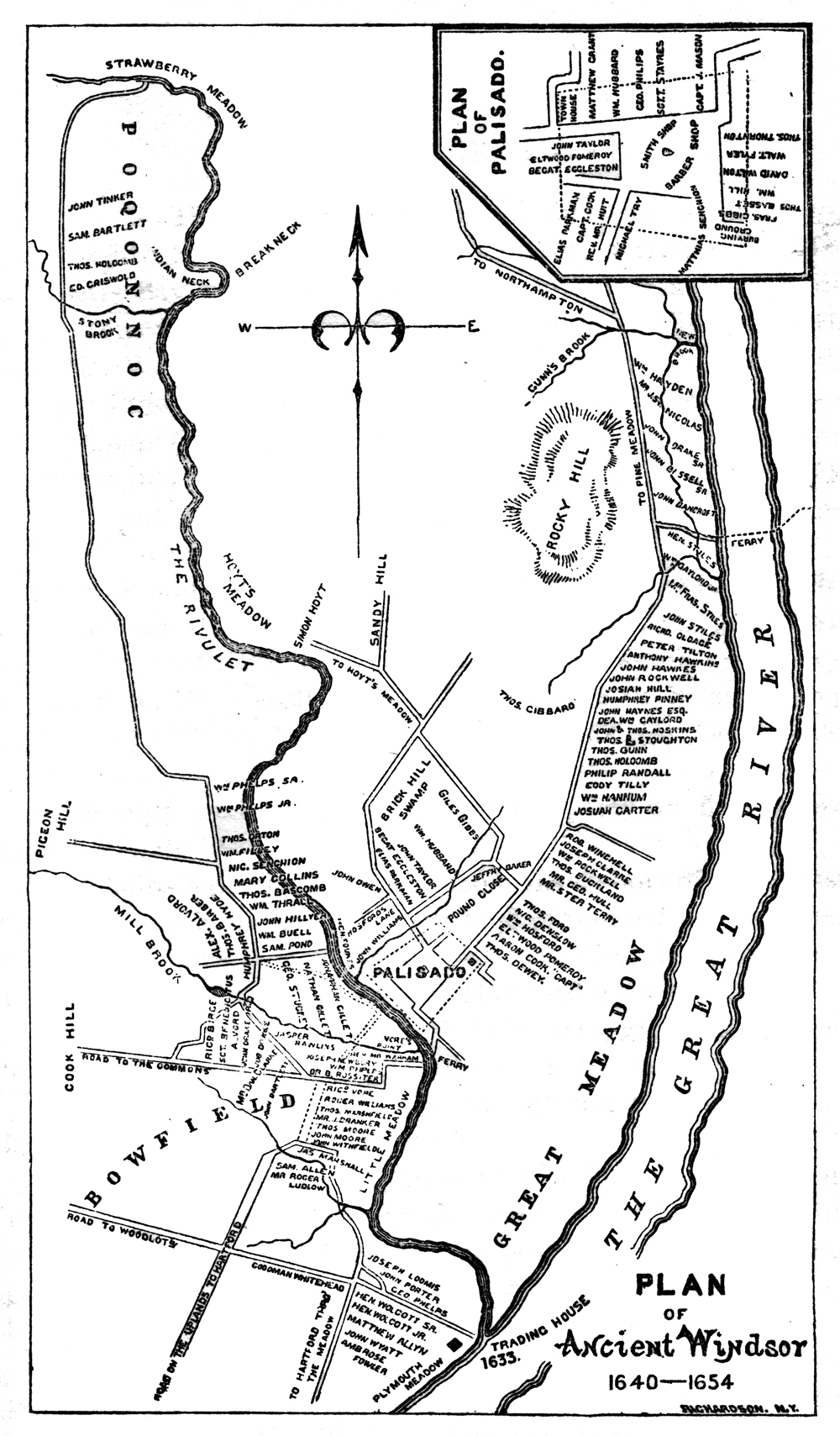 Plan of Ancient Windsor, Connecticut 1640-1654, illustrating the locations of settlers homes and various geographic features. The trading post established by the Plymouth colonists in 1633 is shown at the bottom.